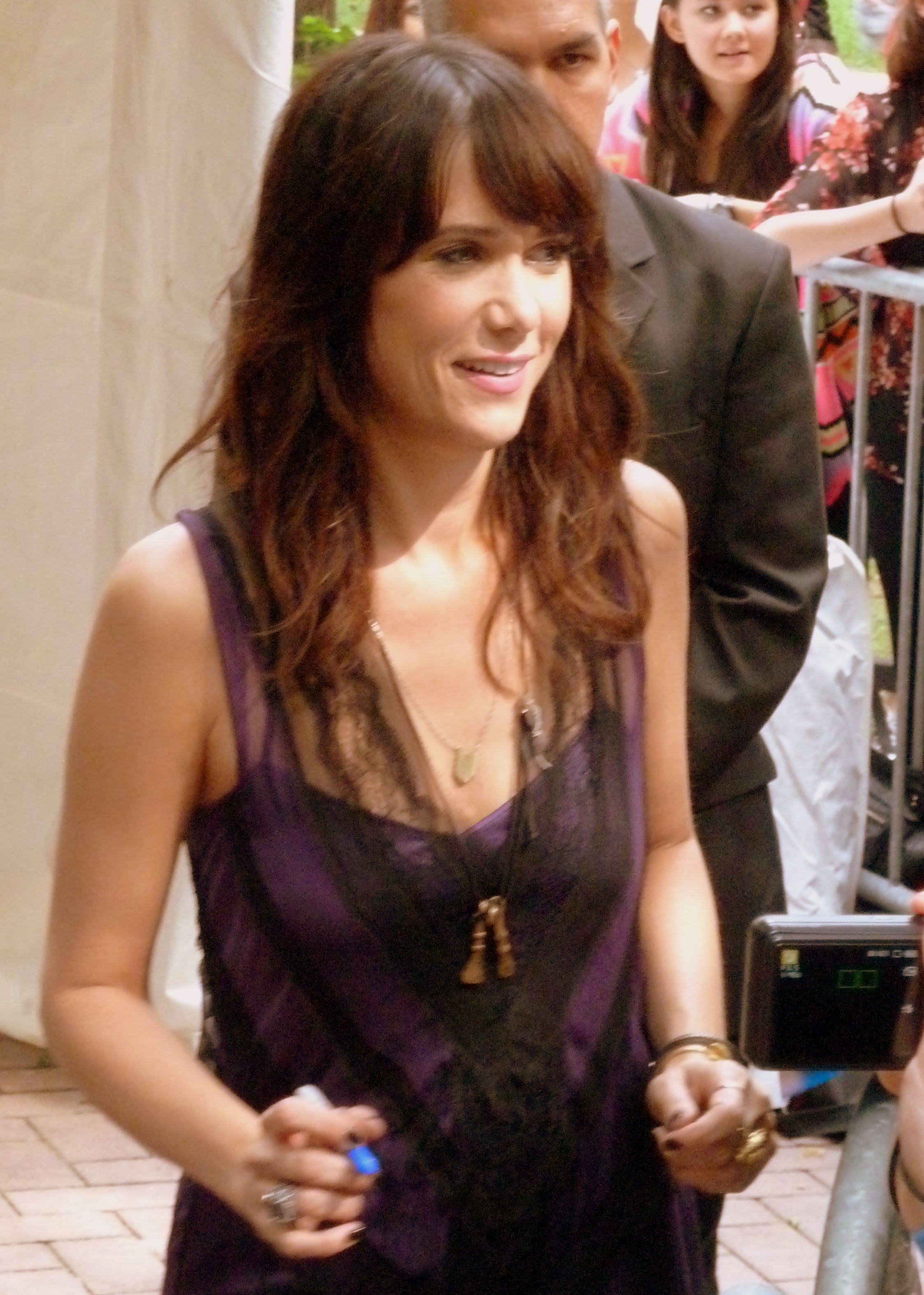 Kristen Wiig at the premiere of Girl Most Likely, Toronto Film Festival 2012 The name of the movie changed from Imogene to Girl Most Likely